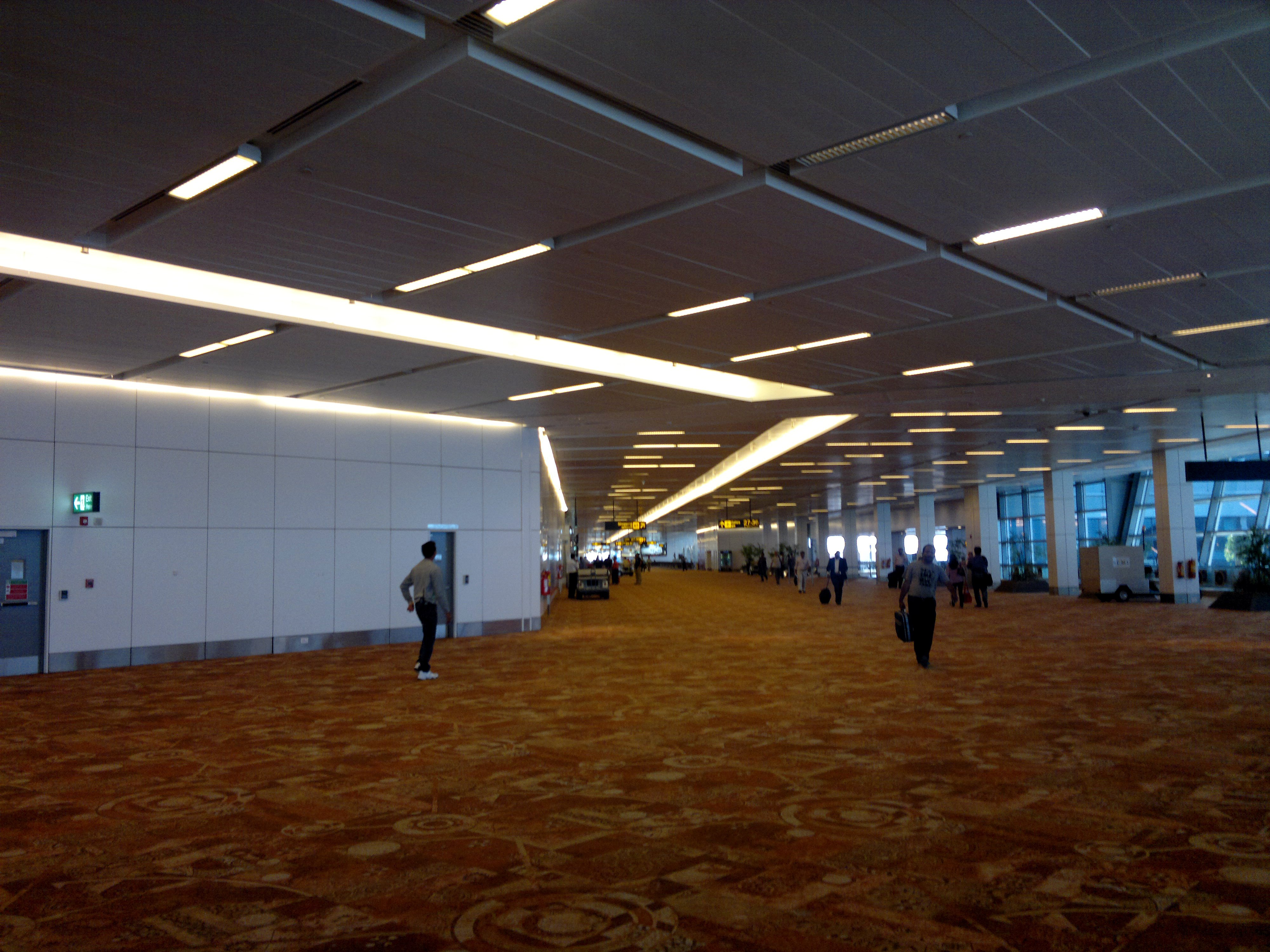 Indira Gandhi International Airport . Terminal 3 will form the first phase of the airport expansion in which a 'U' shaped building will be developed in a modular manner. In 2010, all international and full service domestic carriers will operate from Terminal 3, while Terminal 1 will be dedicated to low cost operations. In subsequent stages, the low cost carriers will also move to the new terminal complex.